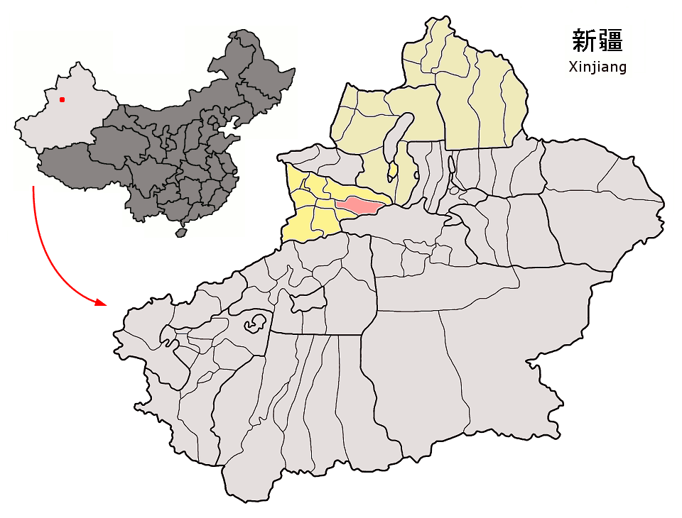 Location of Xinyuan County (pink) and Ili Prefecture (yellow: subdivisions under direct administration of Ili Prefecture, ecru: subdivisions under administration of Tacheng and Altay Prefectures) within Xinjiang autonomous region of China Map drawn in september 2007 using various sources, mainly : Xinjiang Uygur autonomous region administrative regions GIS data: 1:1M, County level, 1990 Xinjiang Counties map from